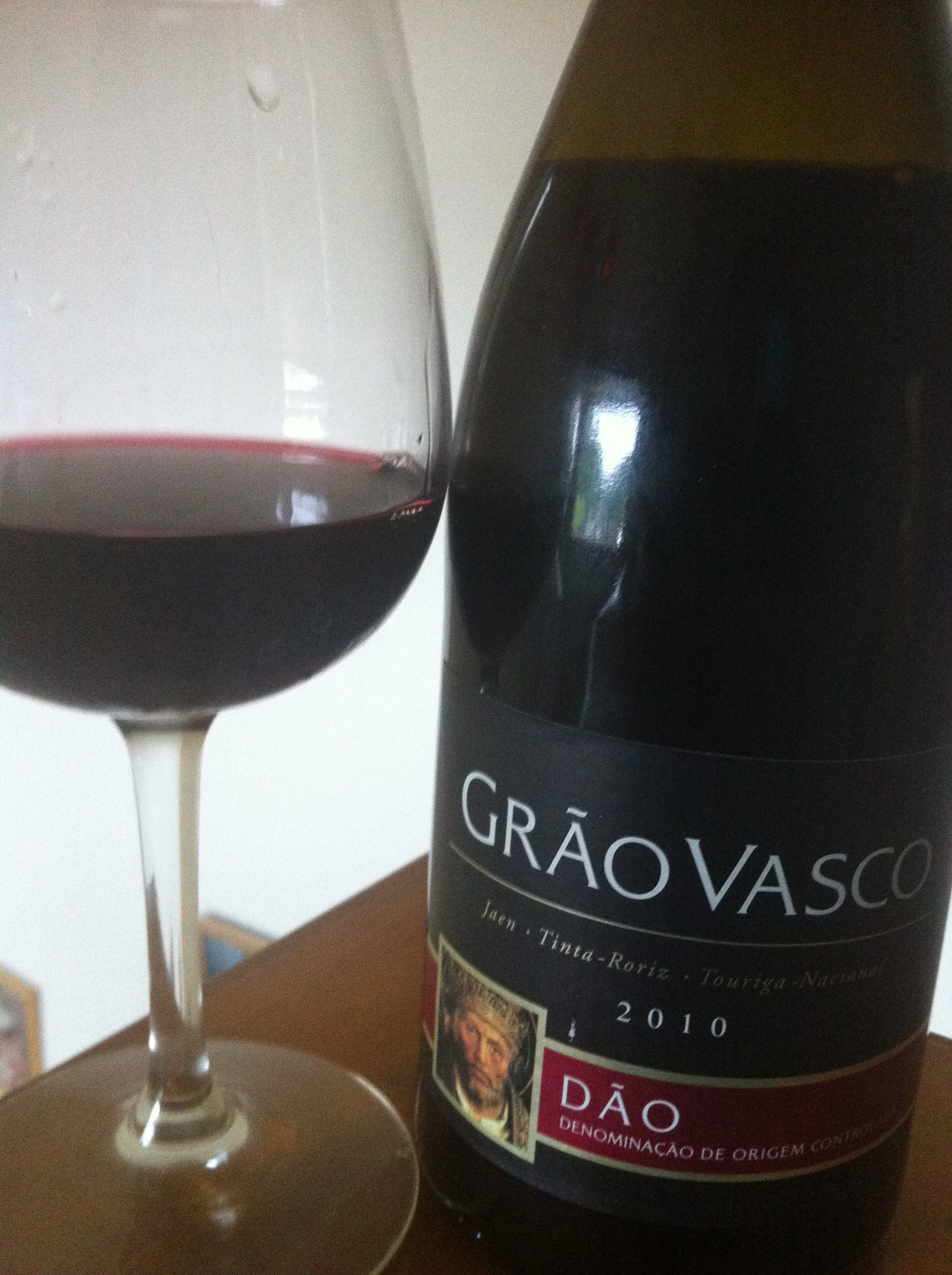 Portuguese red wine from the Dao region made from Jaen (also known as Mencia), Touriga Nacional and Tinta Roriz (maybe Tempranillo but usually that grape is called Aragonez)